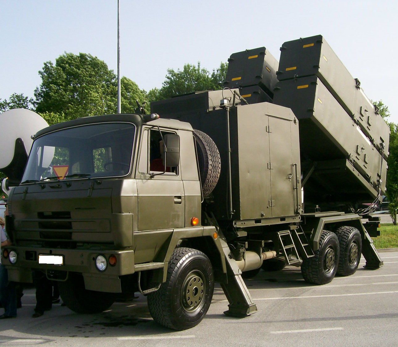 Croatian Mobile anti-ship missile launcher equipped with RBS-15